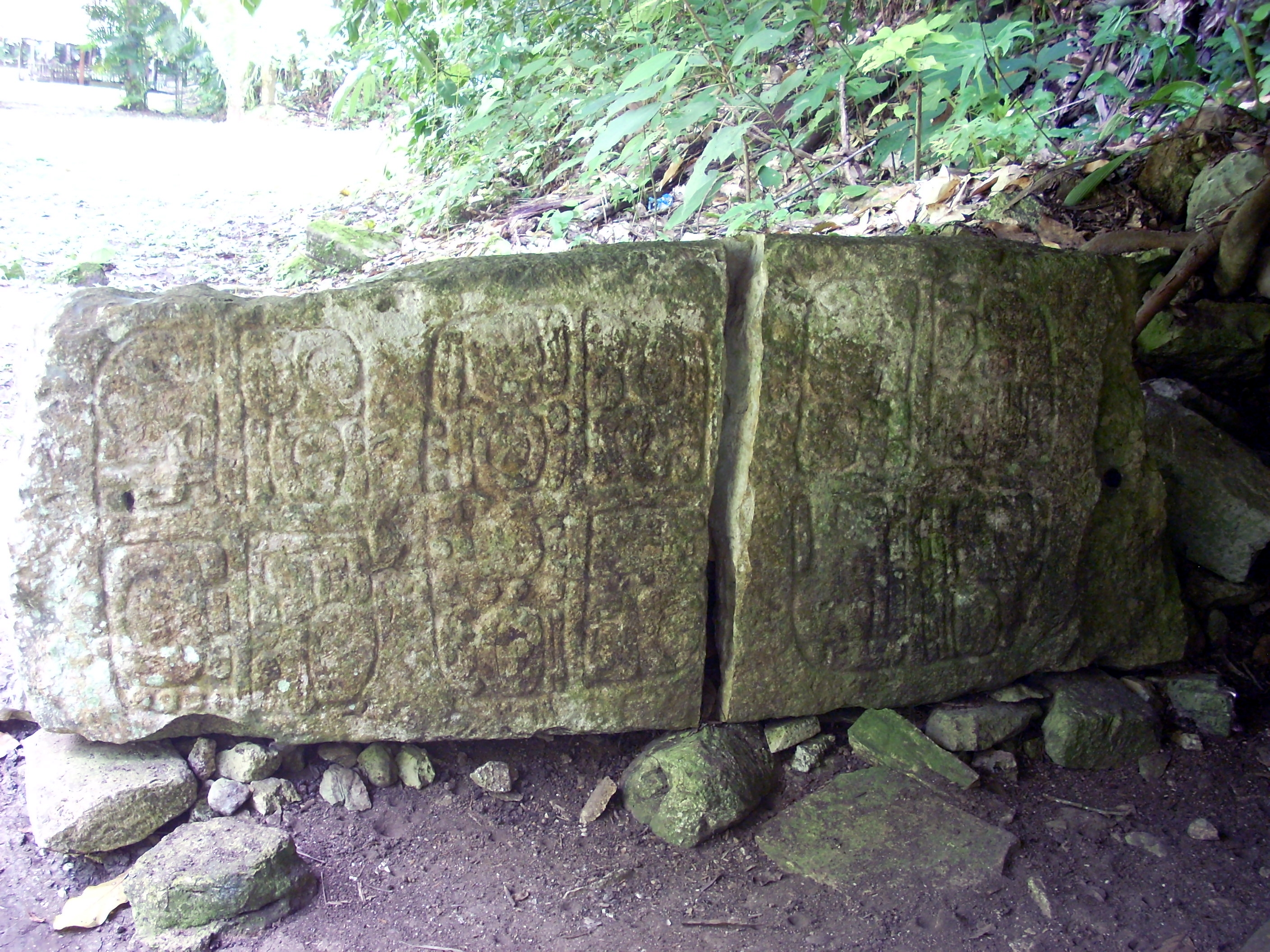 Stela 12 at Ixkun Maya ruins, Peten, Guatemala.